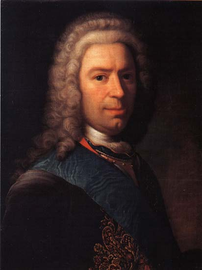 Portrait of Grigory Petrovich Chernyshev (1672-1745)